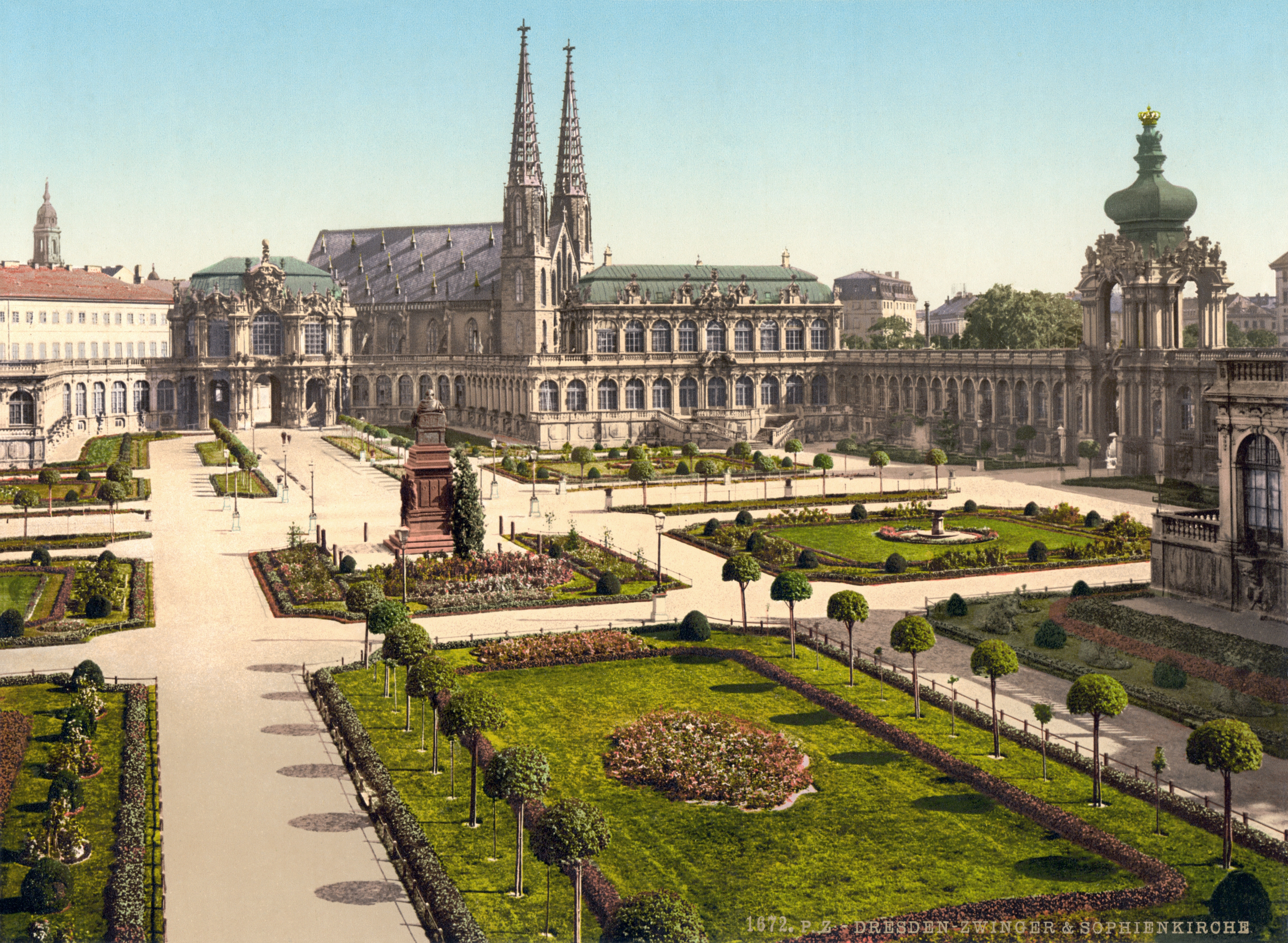 The Royal Prison and the St. Sophie Church, Altstadt, Dresden, Saxony, Germany, seen in a c. 1895 photochrom. The city was heavily bombed in WWII.